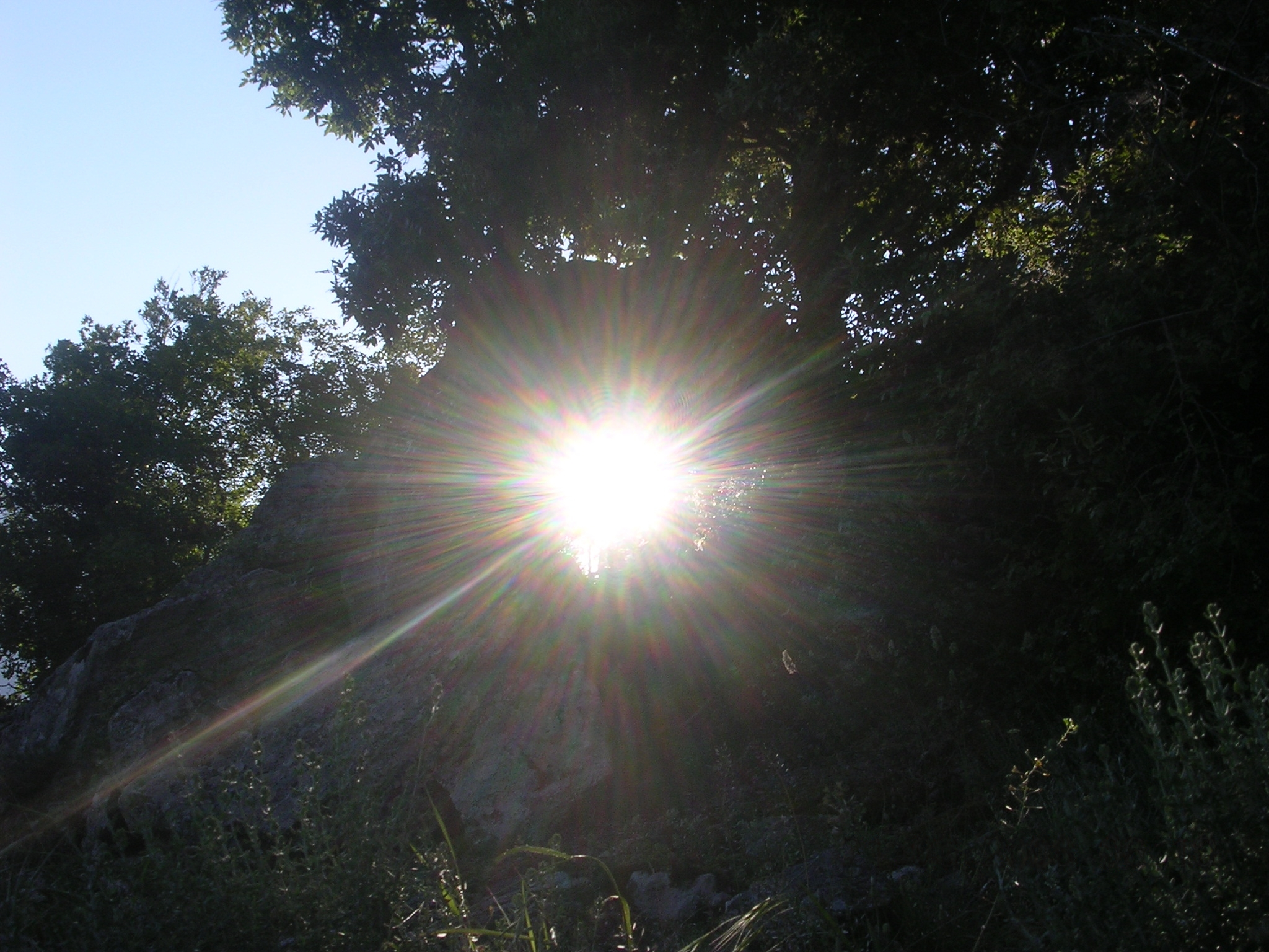 Archaeoastronomy, solstice under Arcu di l'Ursini of Carticasi (Corsica): the Arcu blazes.